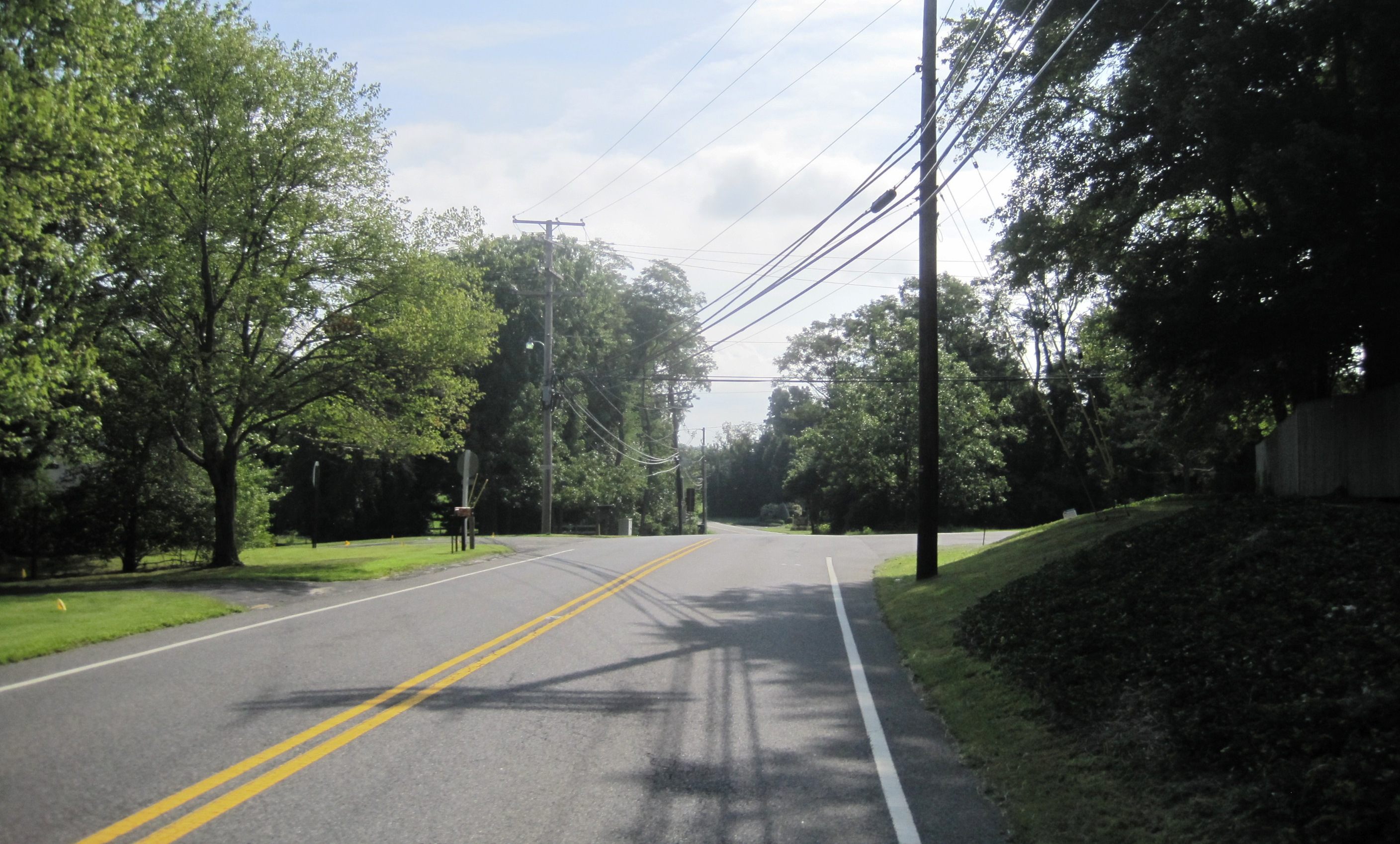 Photo of Stone Tavern, New Jersey, an unincorporated community within Upper Freehold Township. Photo taken along eastbound Stage Coach Road (County Route 524) at Chambers Road.